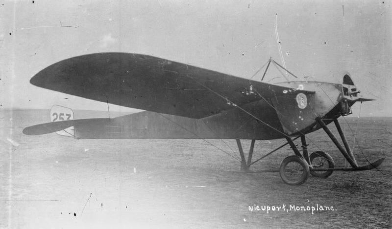 Aviation in Britain Before the First World War Nieuport monoplane on the ground.